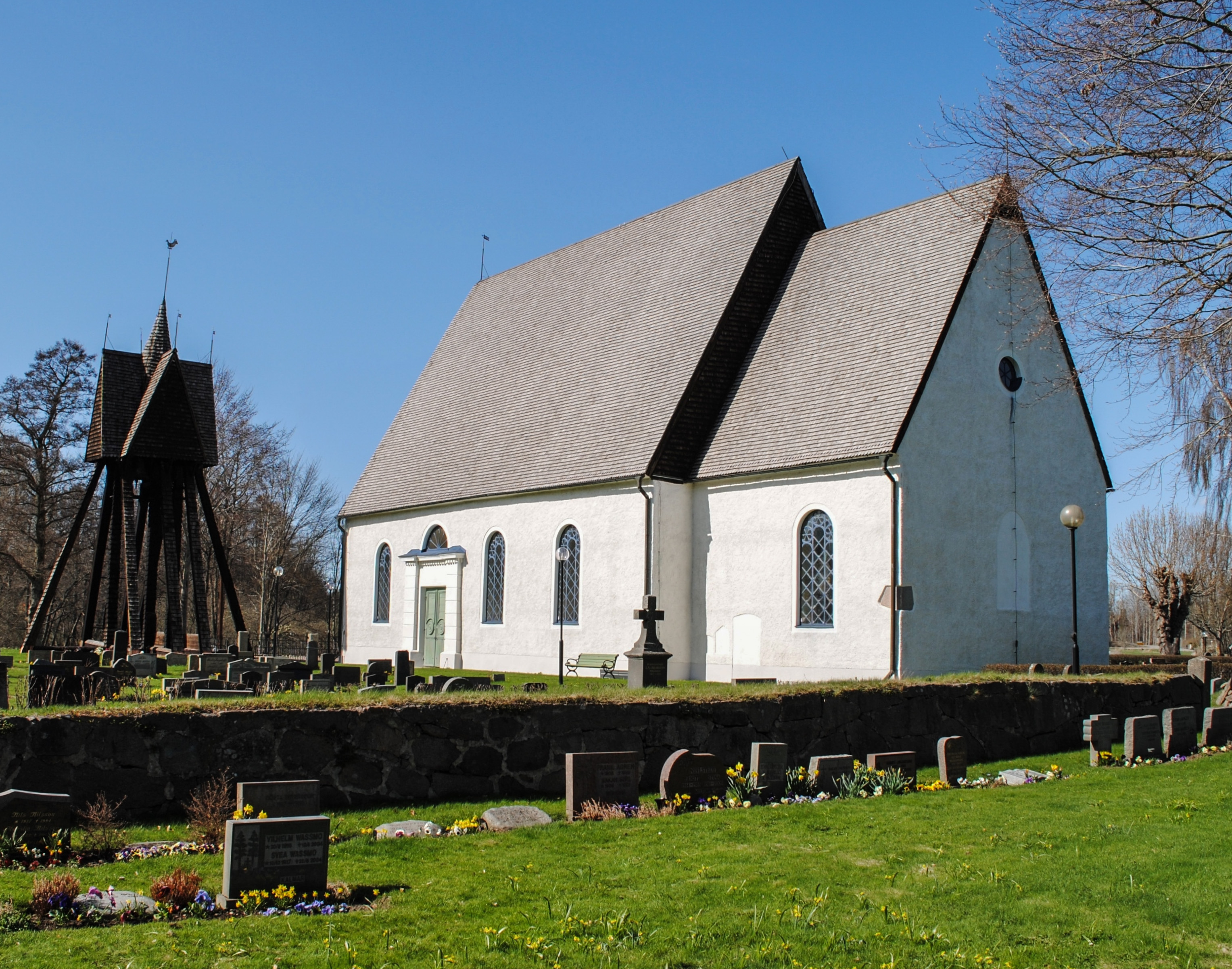 Mortorps Church.The exterior of the church from the south-east.